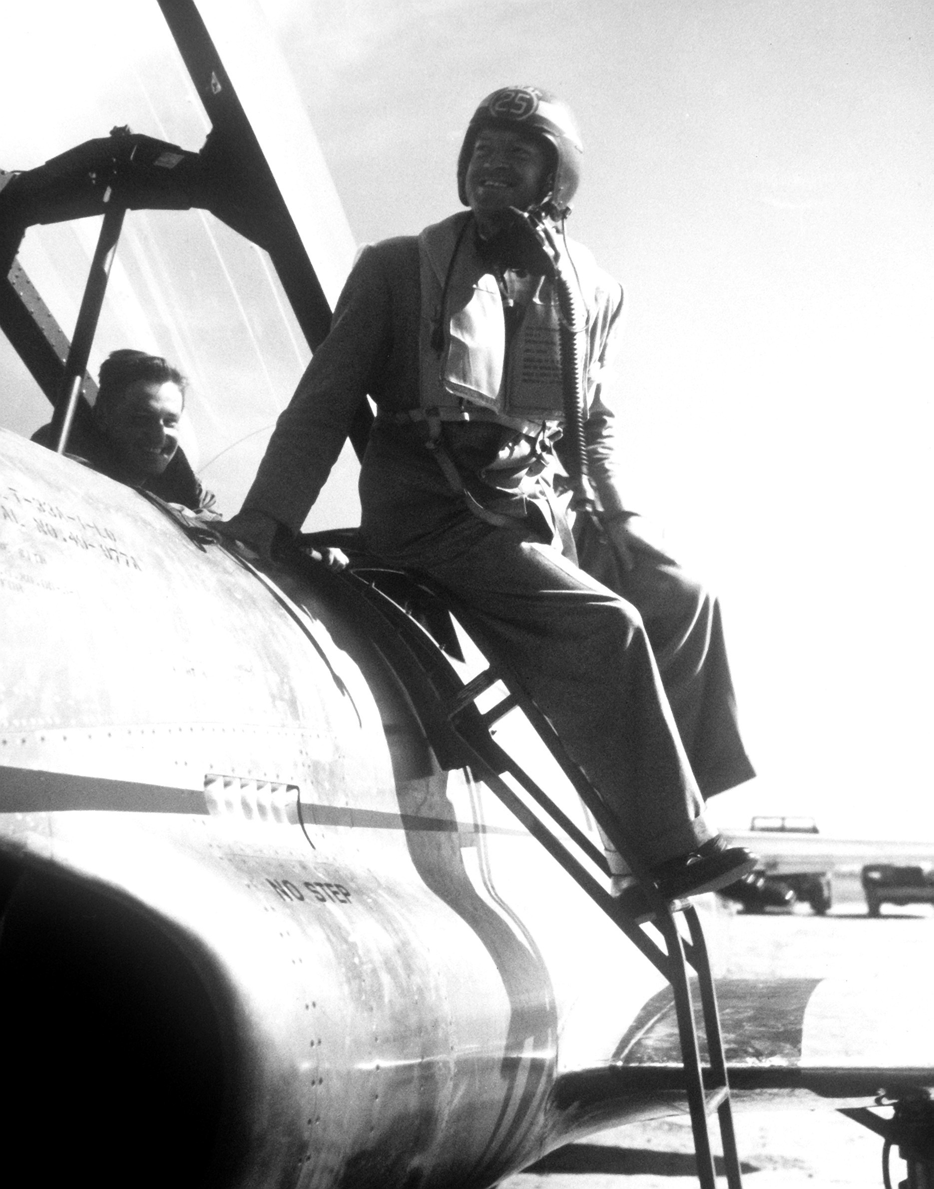 Hope in Korea. Bob Hope was caught by the cameraman just as he was climbing out of the T-33 jet plane, which flew him from Taegu to Kimpo airfield in Korea, on his current entertainment tour. By the smile on the pilot's face, Hope has evidently made some witty remark about the ride. AIR AND SPACE MUSEUM#: 78075 AC